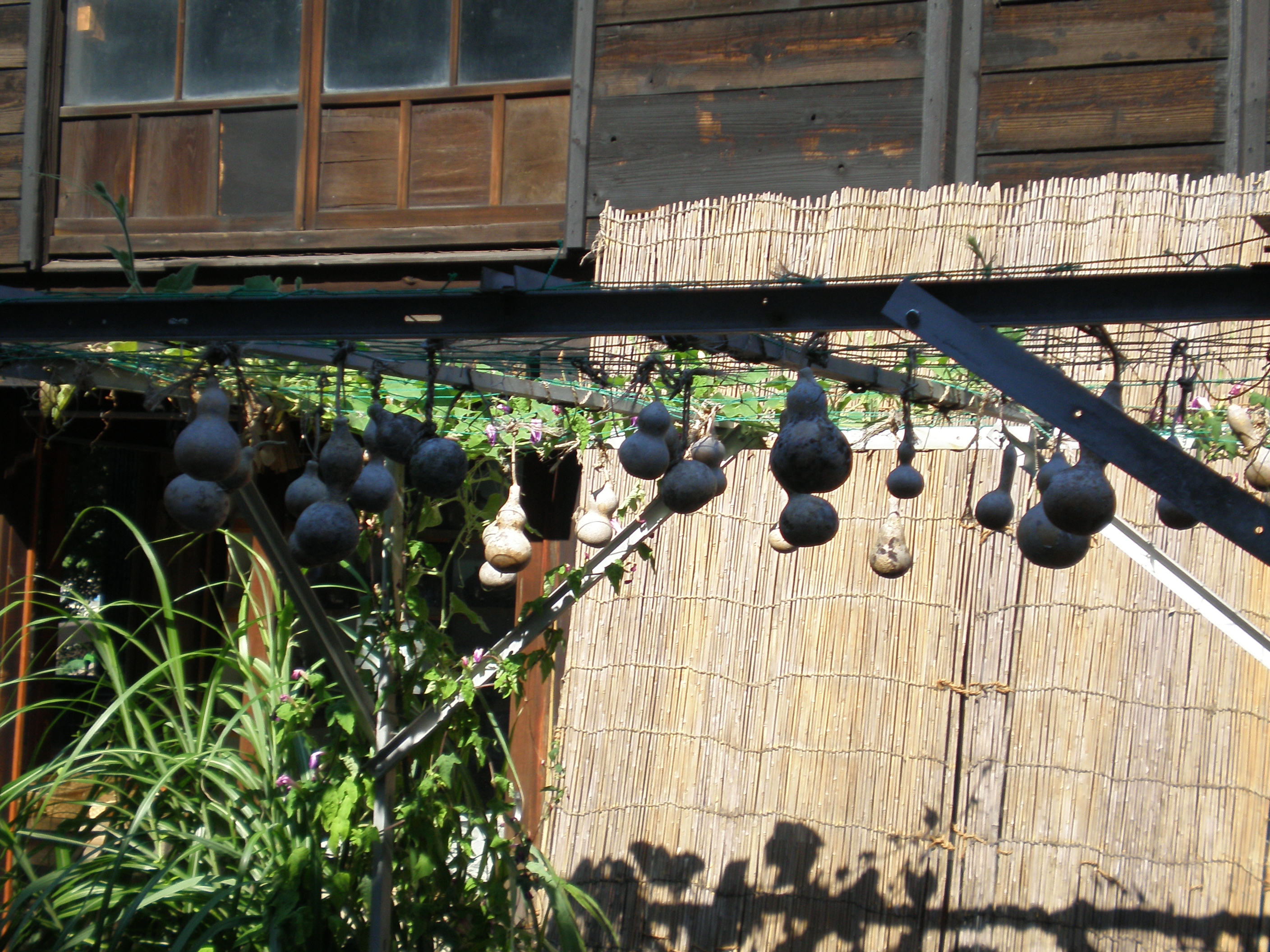 Calabash Trellis in Japan (Lagenaria siceraria var. gourda)